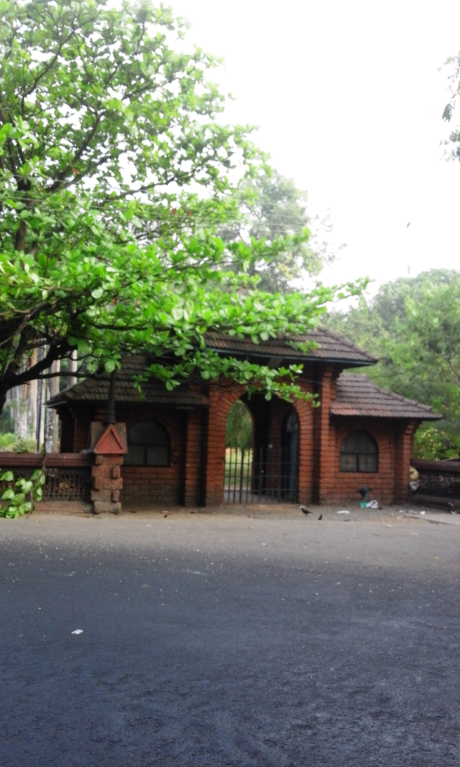 Kozhikode District, Kerala province, India.